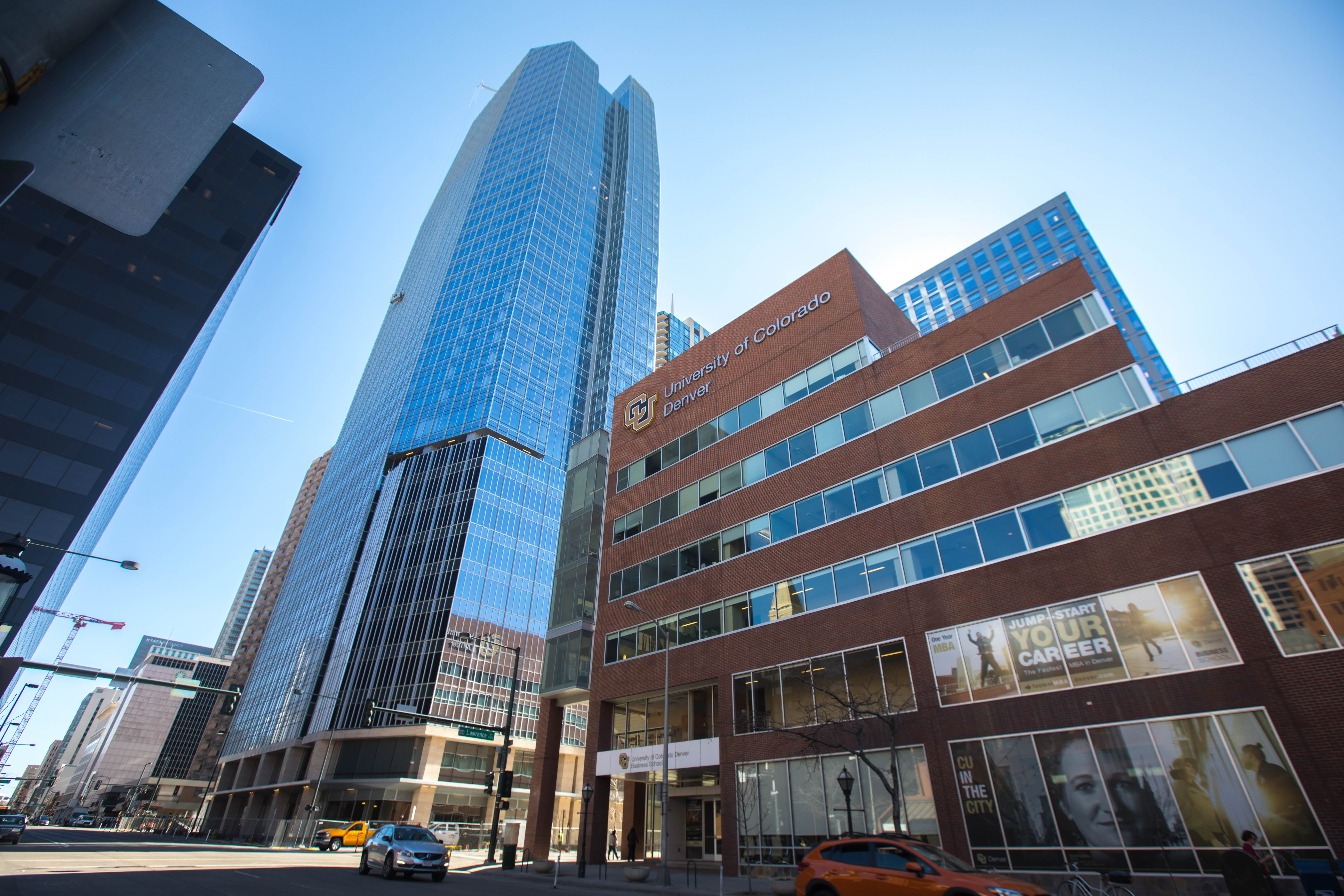 CU Denver Business School at 15th St and Lawrence St